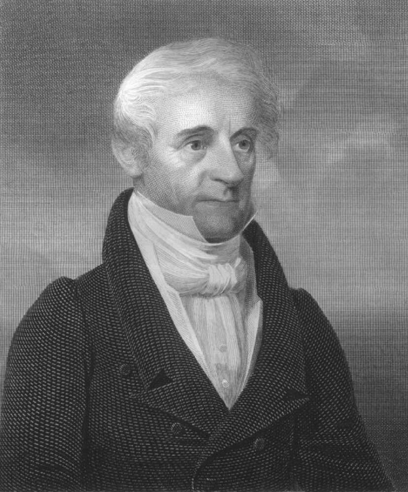 Engraving of Solomon van Rensselaer (August 6, 1774 – April 23, 1852), former member of the United States House of Representatives from New York